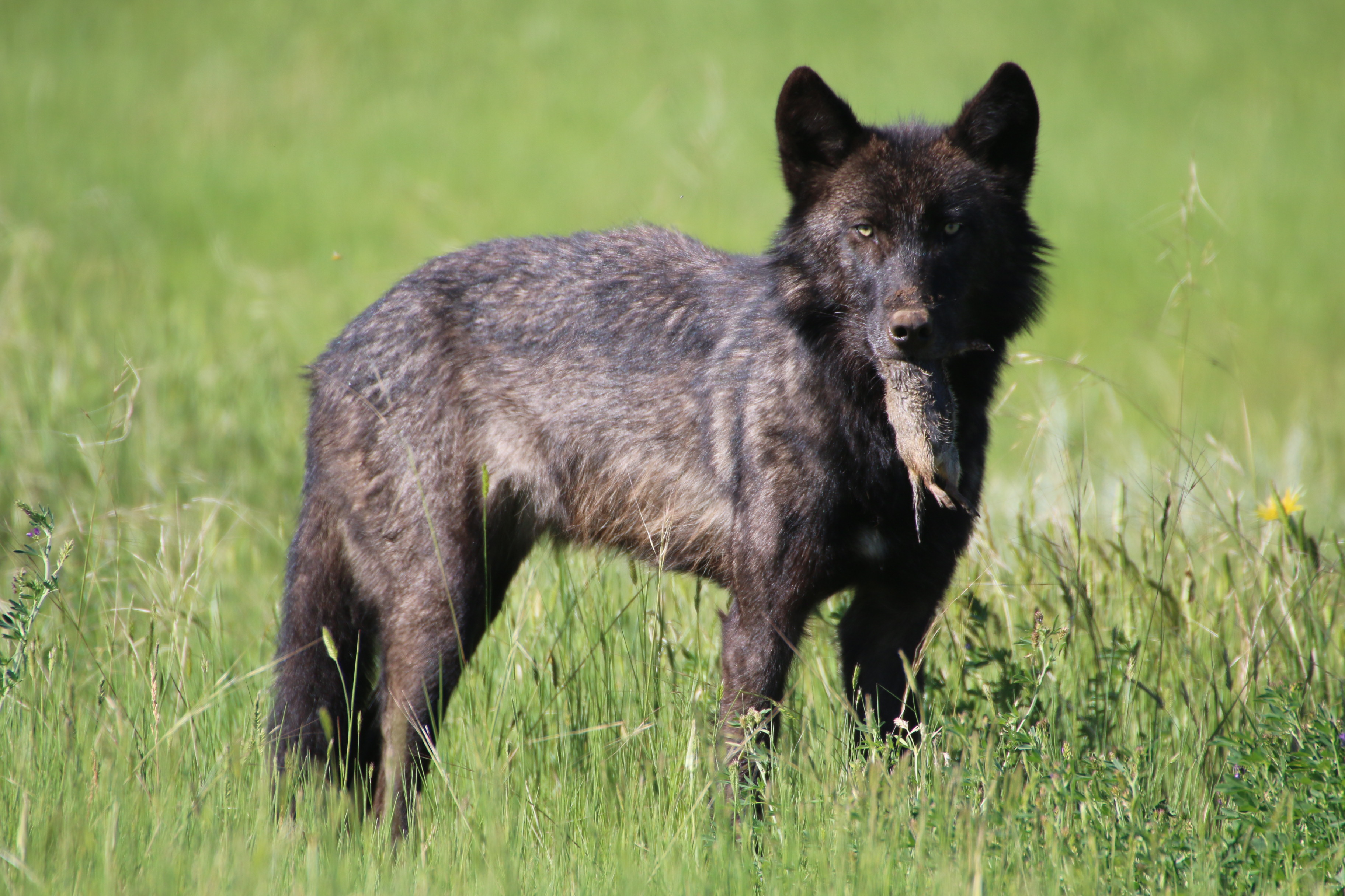 A black wolf successfully catches a Uinta ground squirrel for a morning meal. Photo credit: Lori Iverson / USFWS.